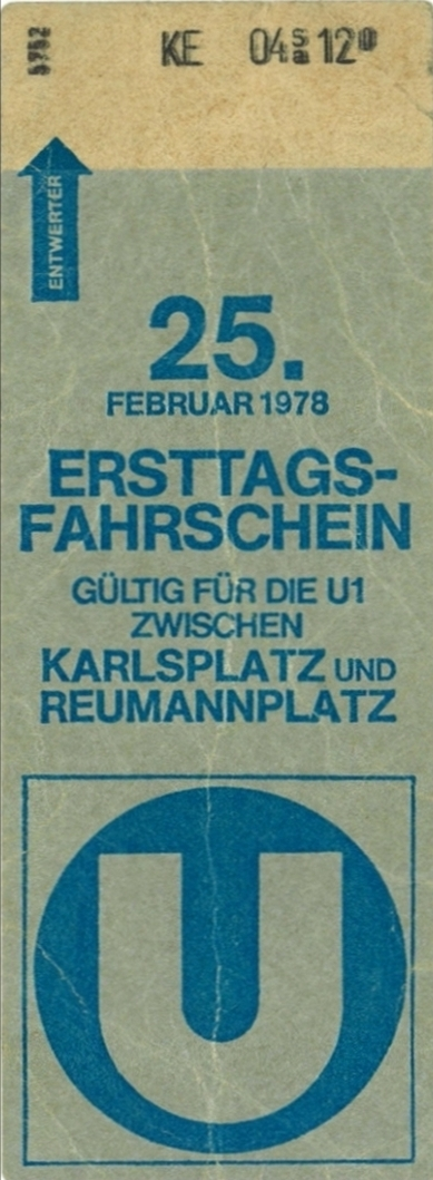 Ticket for a free ride on the opening day (1978-02-25) of Vienna's new underground U1